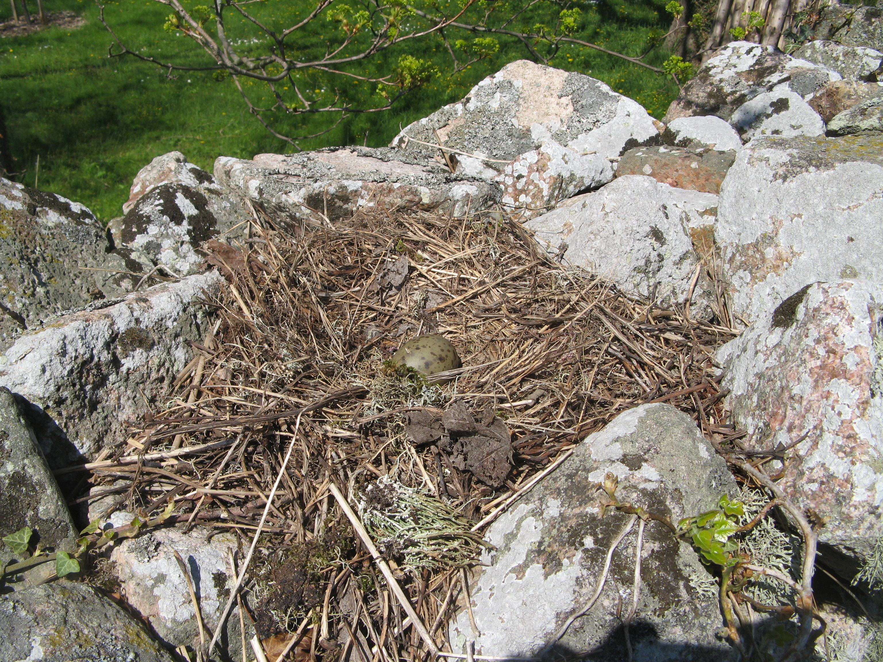 Christiansø, Mövennest on the fortified wall